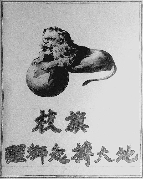 Flag of Shanghai Jiao Tong University in 1909